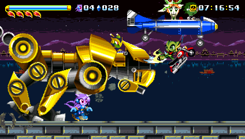 One of the game's bosses. This one involves fighting while running.